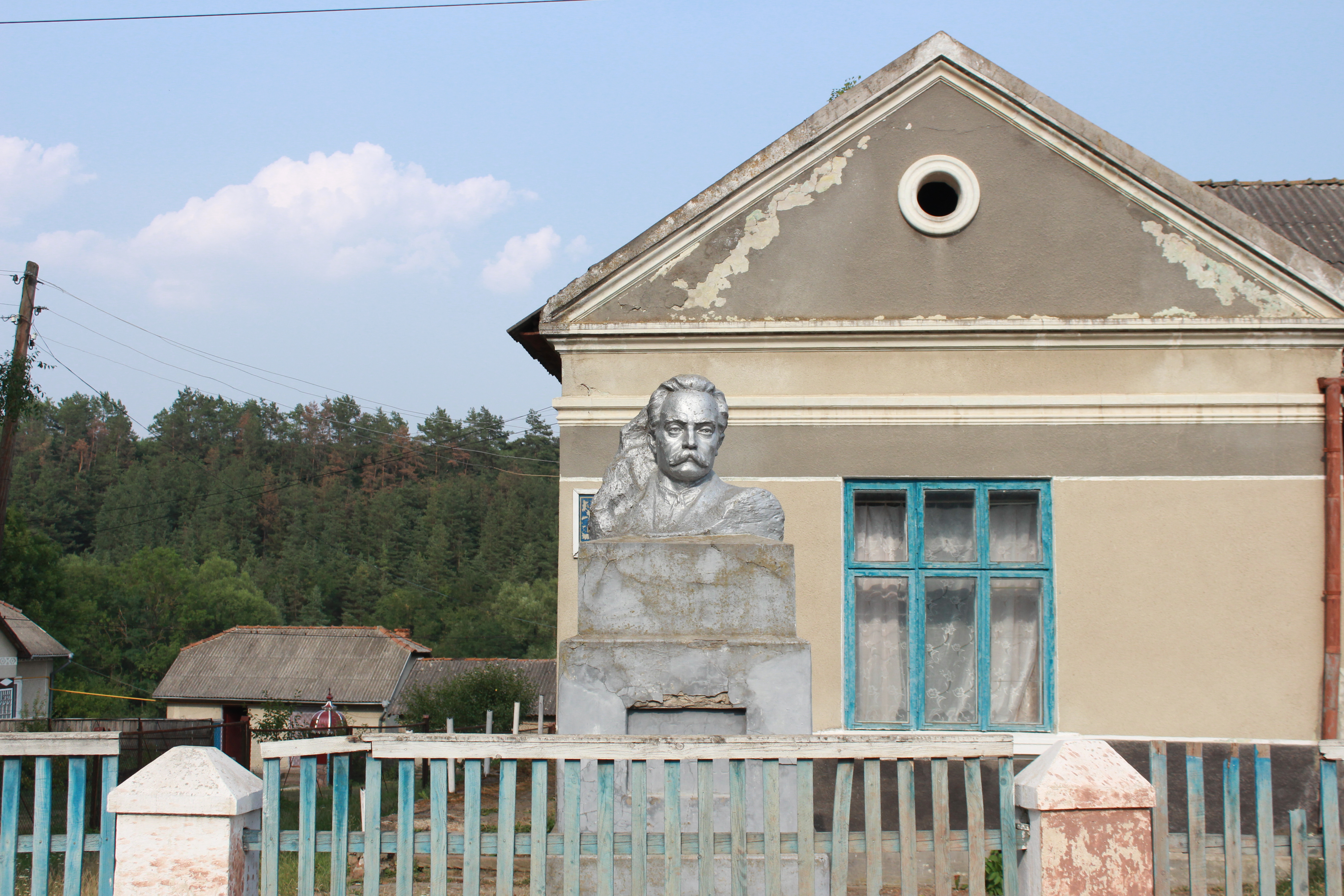 Пам'ятник Франку